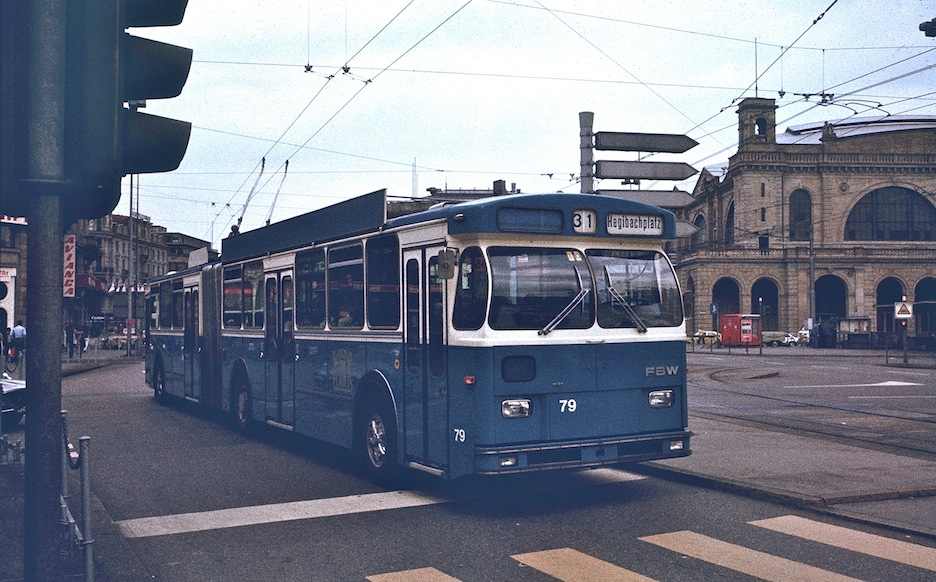 Zürich trolleybus 79, a 1974-built FBW, starting to cross Bahnhofbrücke in 1979, eastbound on route 31 to Hegibachplatz.